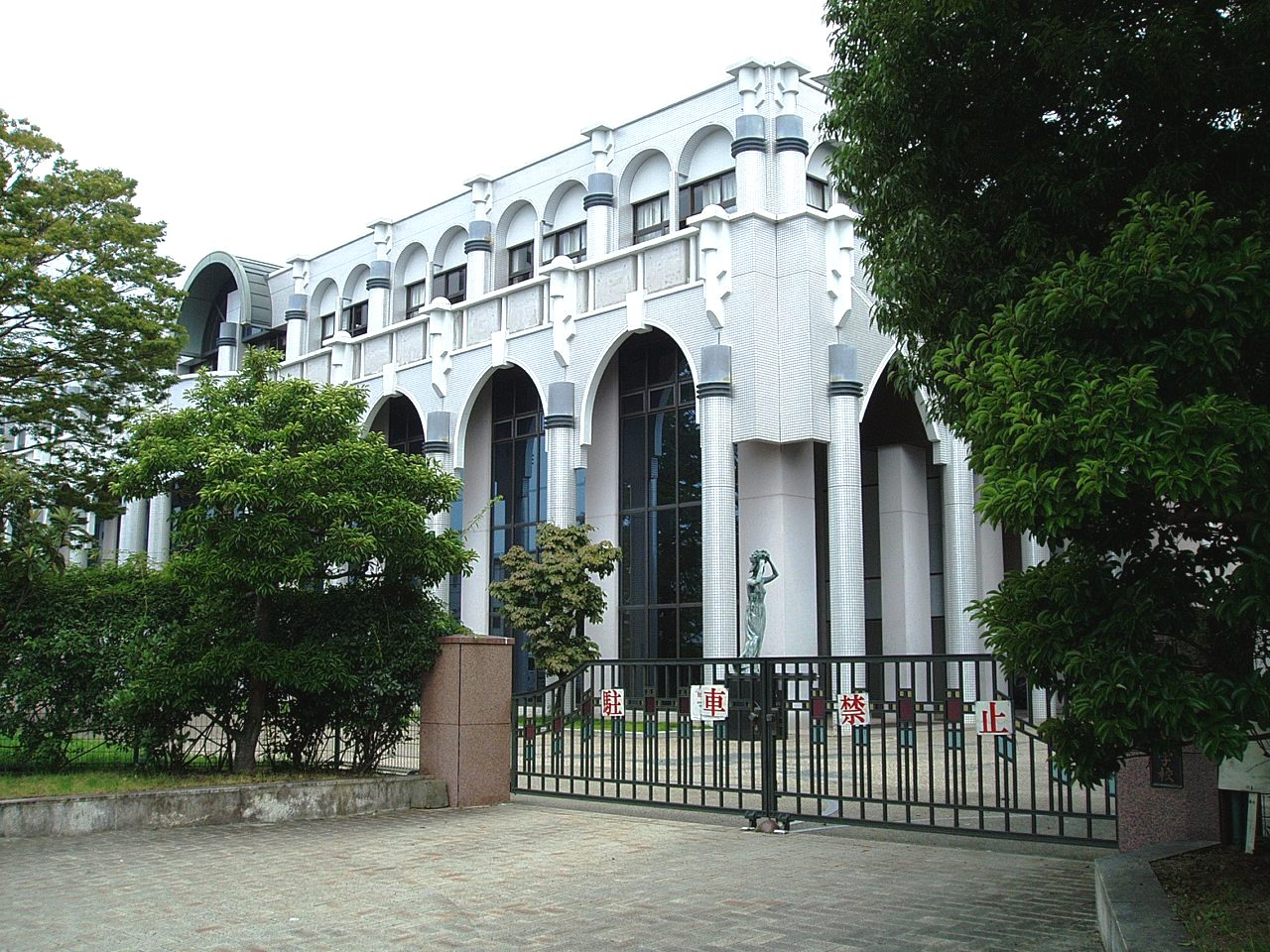 Auditorium of Hamamatsu Municipal Senior High School located in Hamamatsu, Shizuoka, Japan.